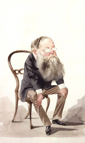 Caricature of Wilkie Collins (1824-1889). Caption read "The Novelist who invented Sensation".